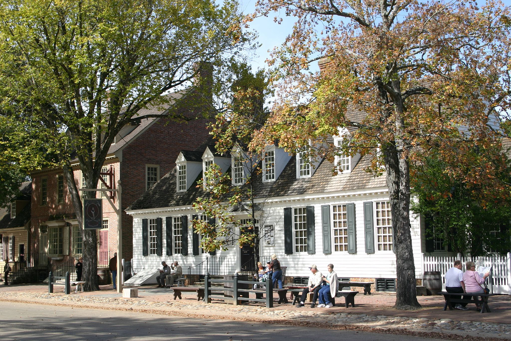 The Raliegh Tavern, Williamsburg, Virginia, USA